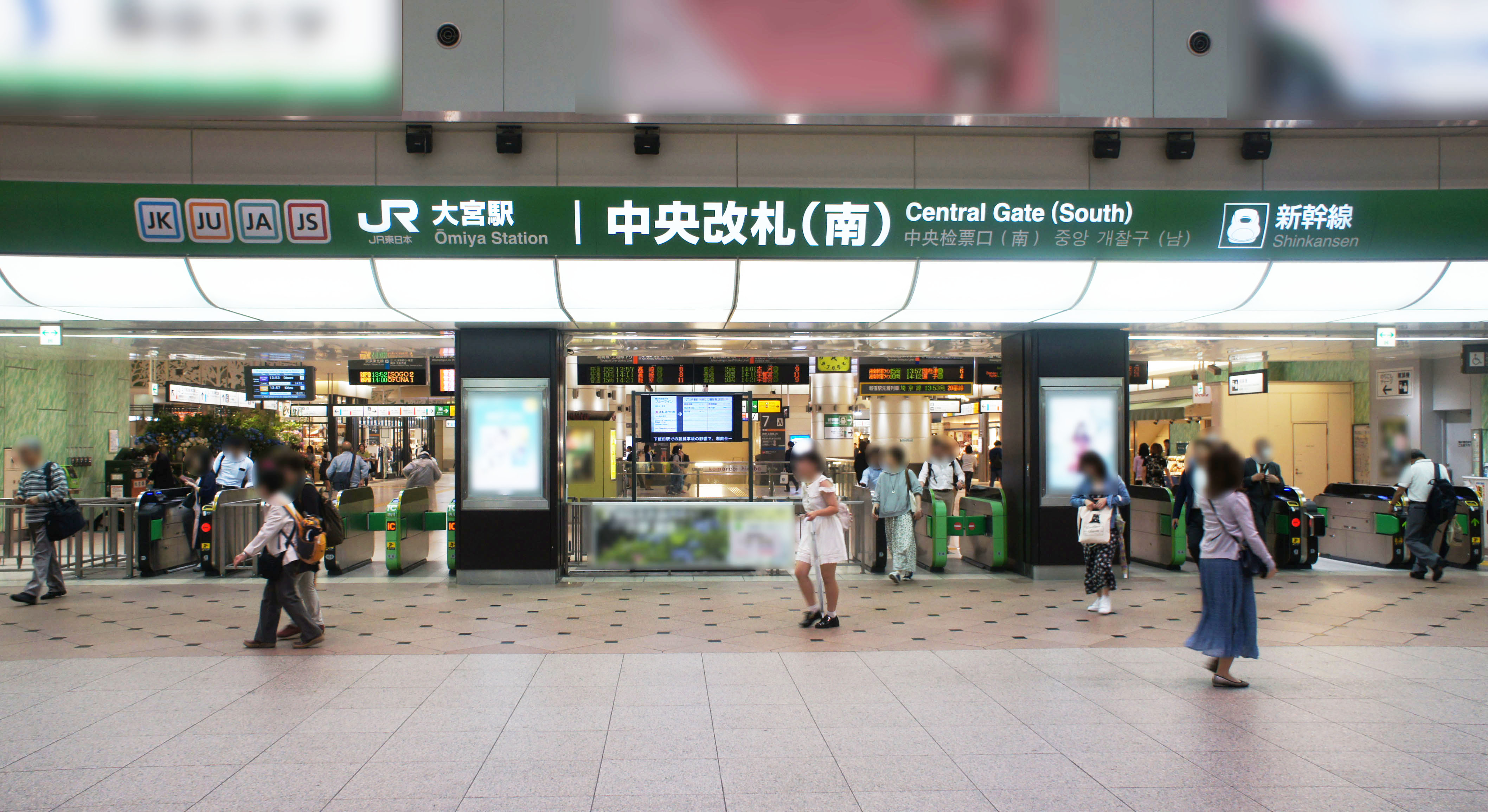 Central Gates (South) of JR Omiya Station Sony NEX-3 + E 18-55mm F3.5-5.6 OSS